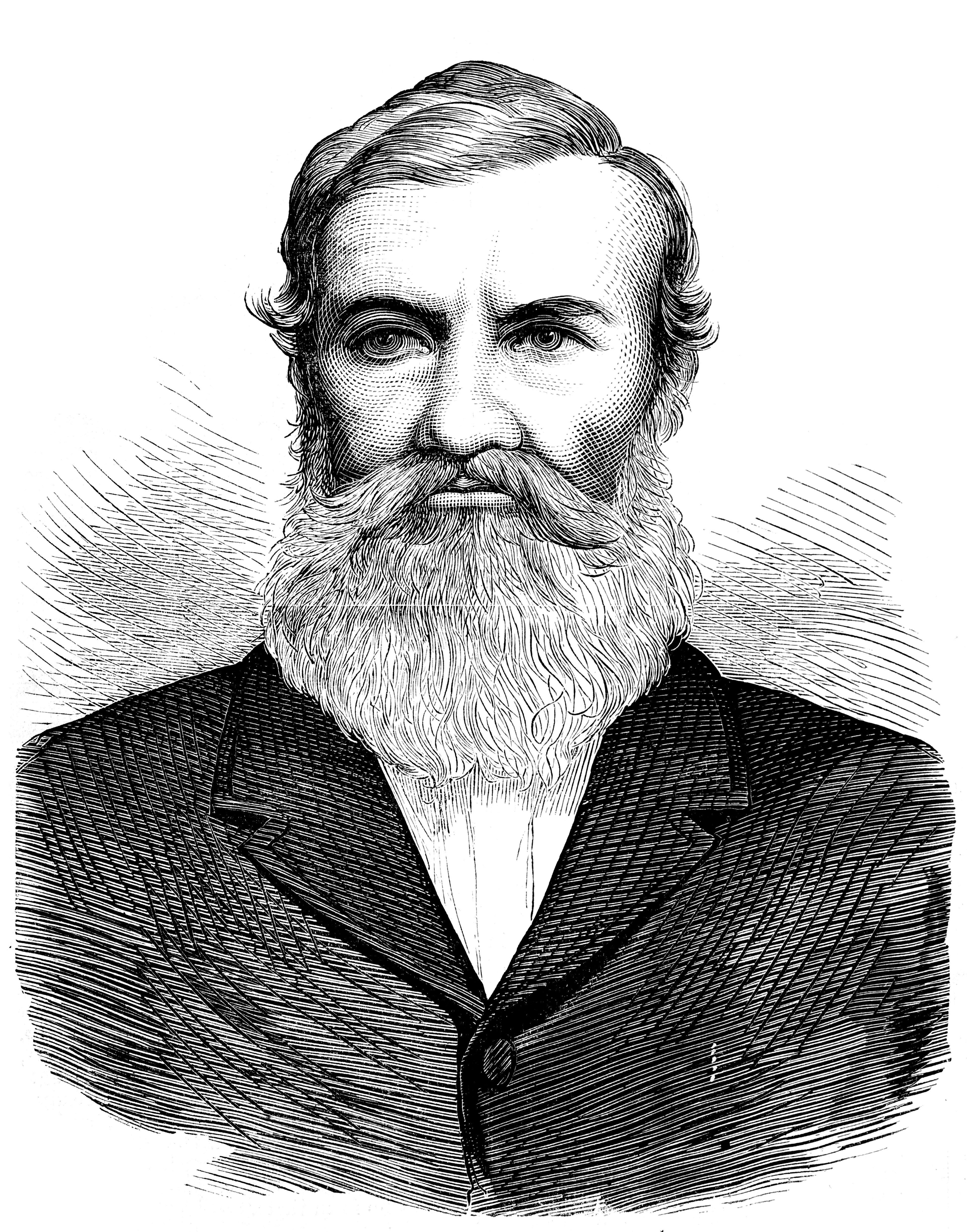 Portrait of Claud Farie (1816–1870)